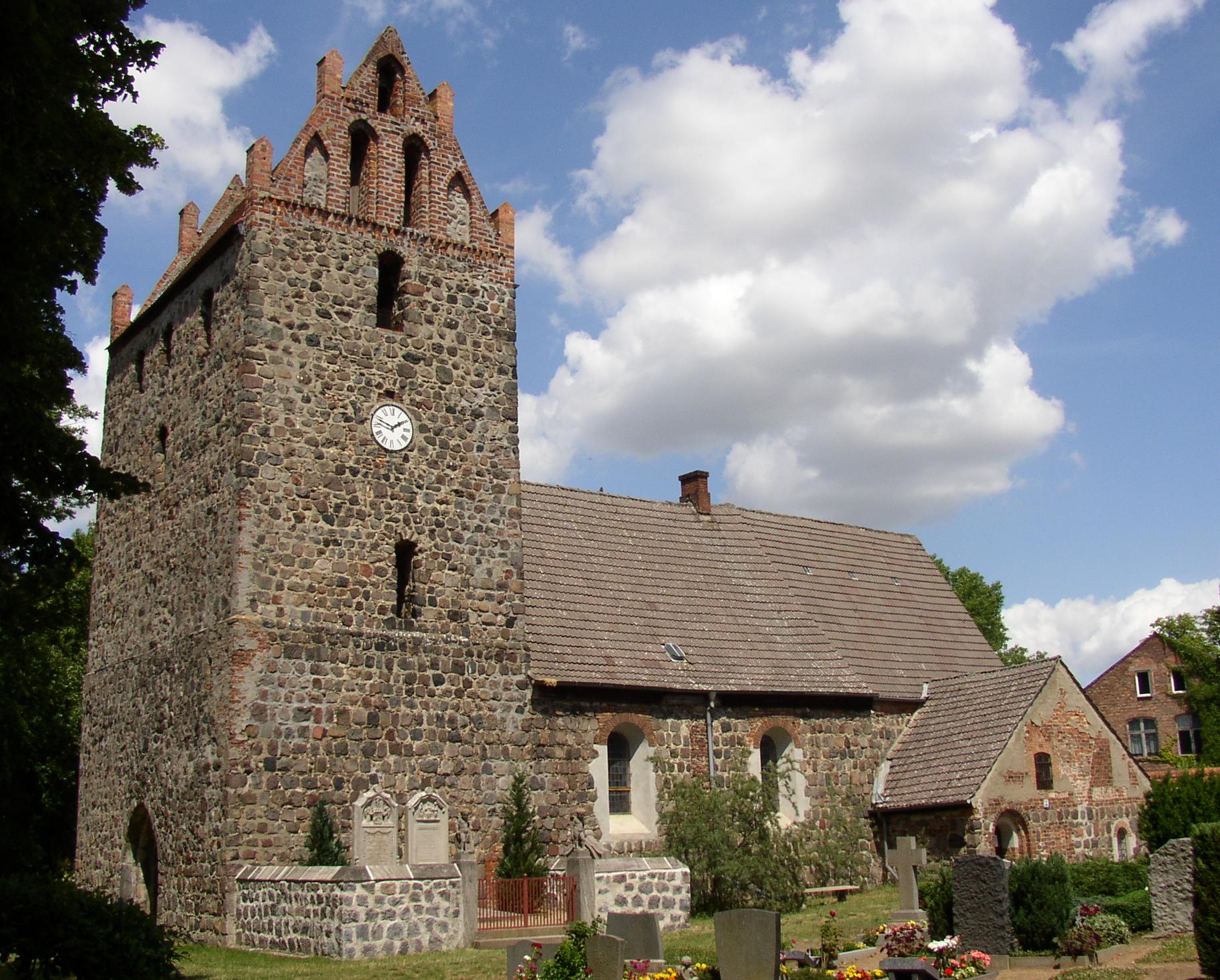 Church in Bernau-Börnicke in Brandenburg, Germany